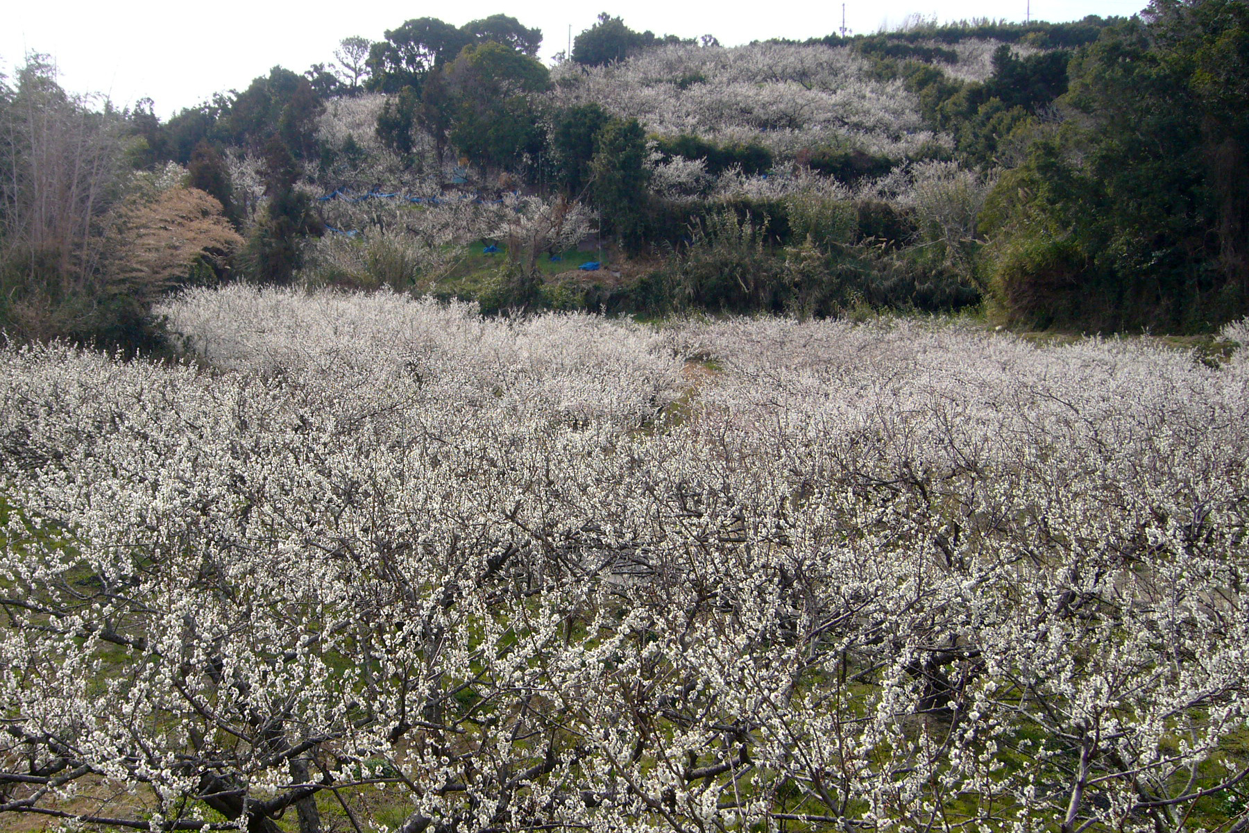 Senri Bairin, Minabe, Wakayama prefecture, Japan